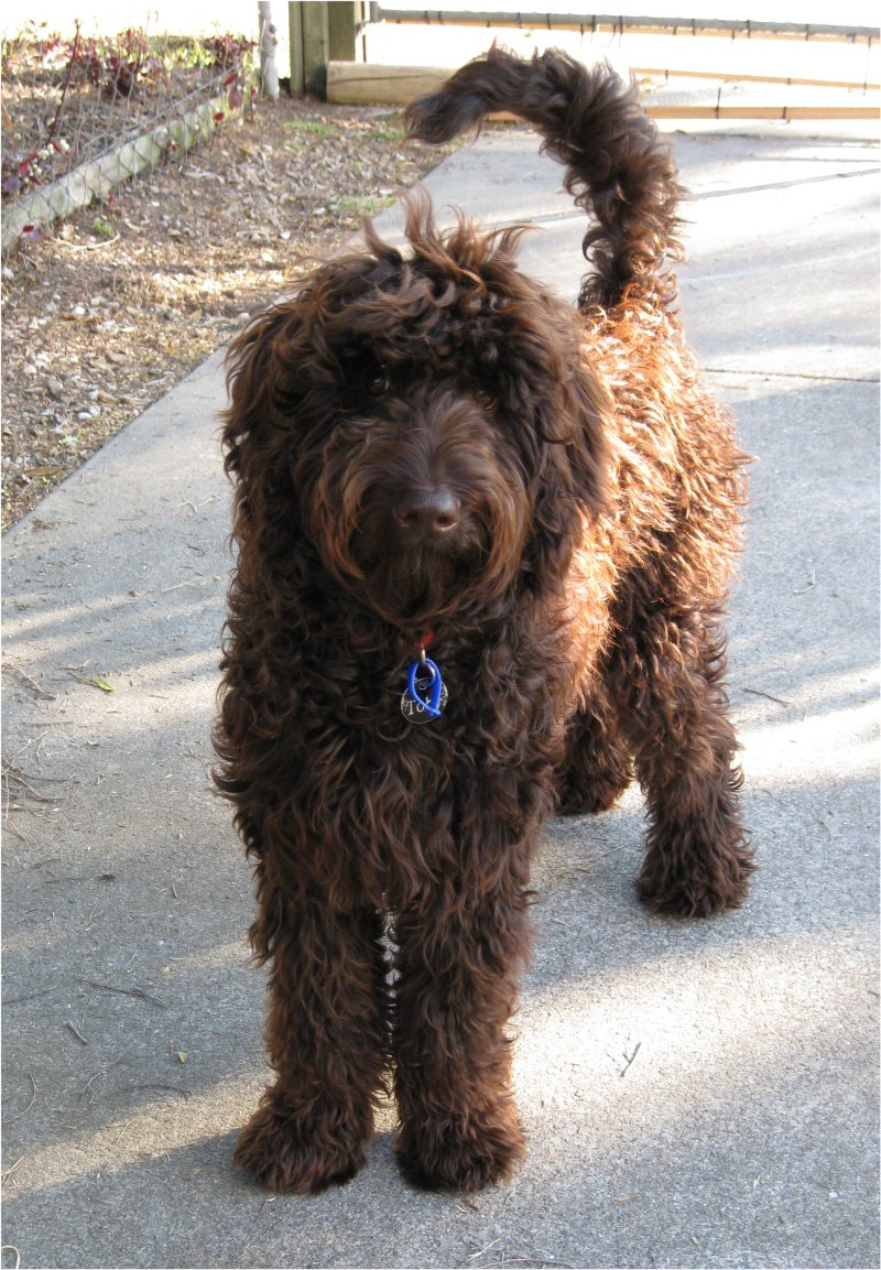 An Australian male Labradoodle at 9 month of age.